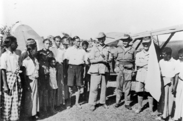 Australian officers with locals in Akyab, Burma during World War II